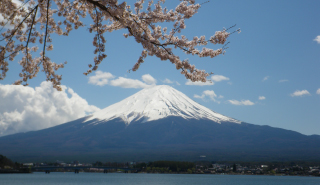 This is a free picture of Japanese "Mount Fuji", provided by the Ministry of Environment of Japan at its website.